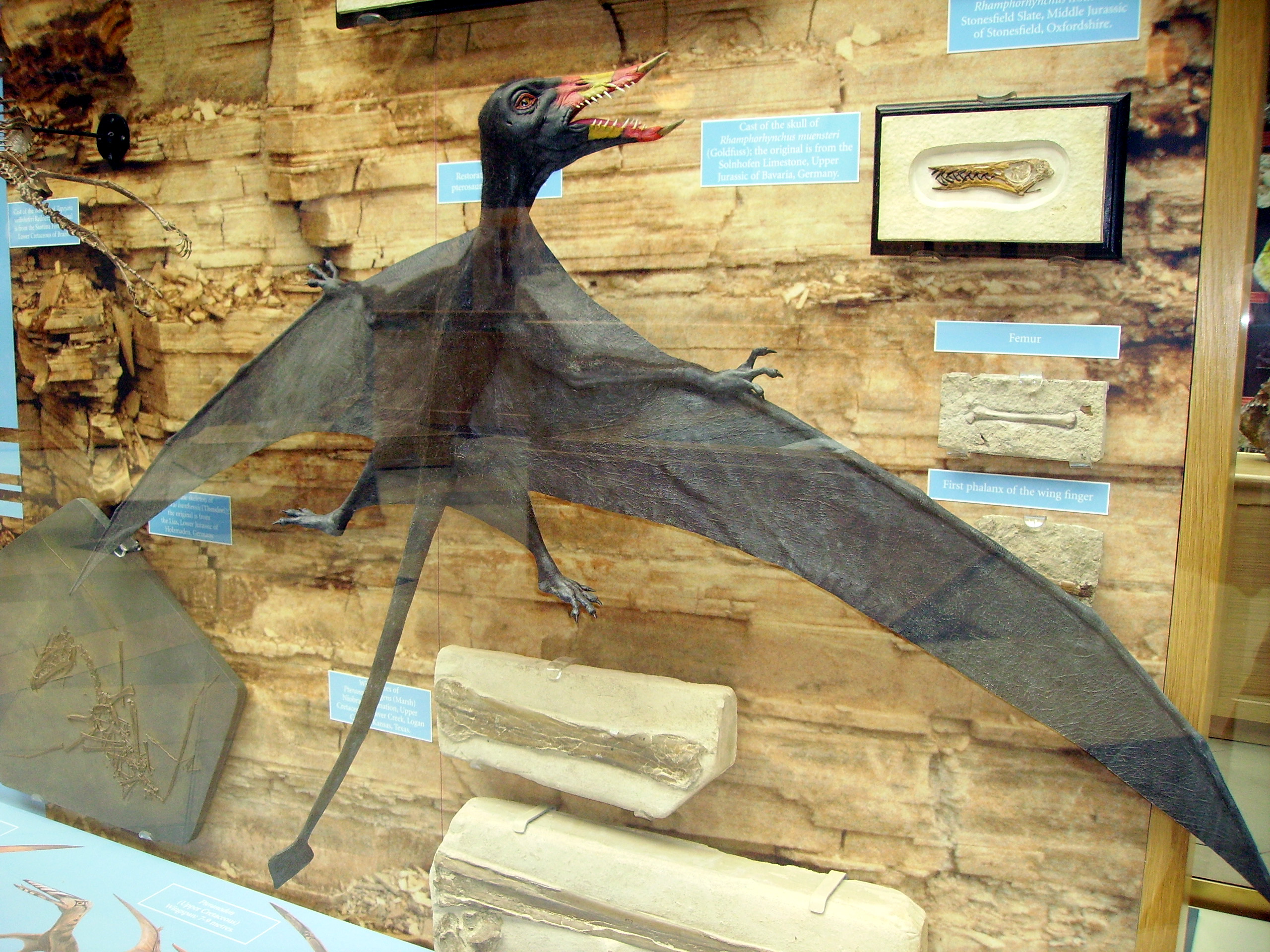 Rhamphorhynchus model; Oxford Museum.